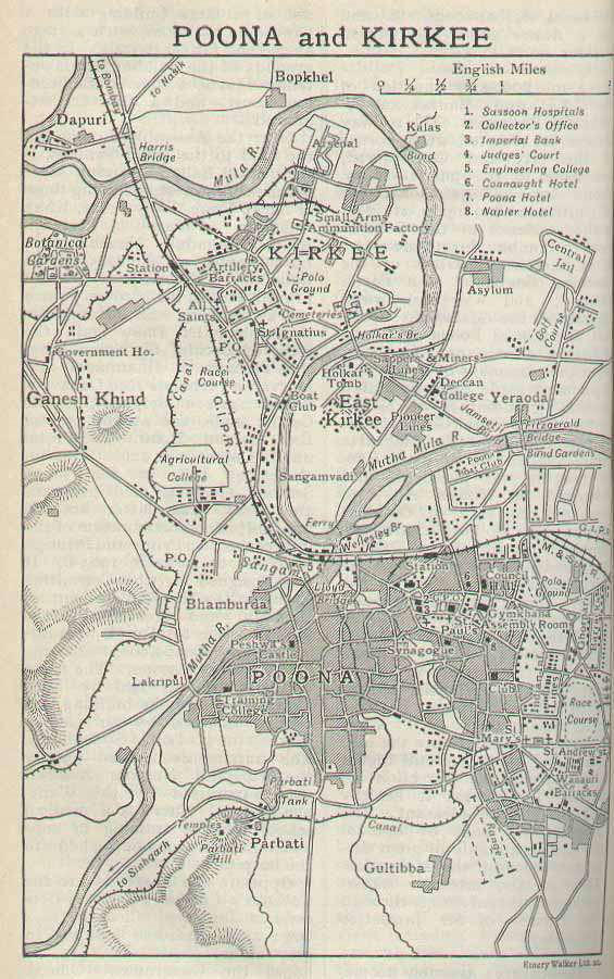 An old map of the city of Poona and the adjoining areas